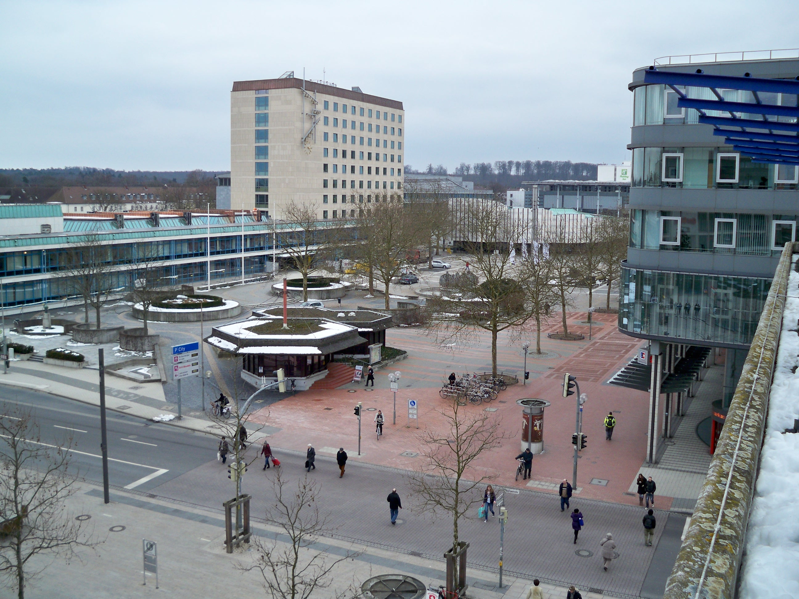 Wolfsburg, Lower Saxony, Porschestraße, City hall with market place